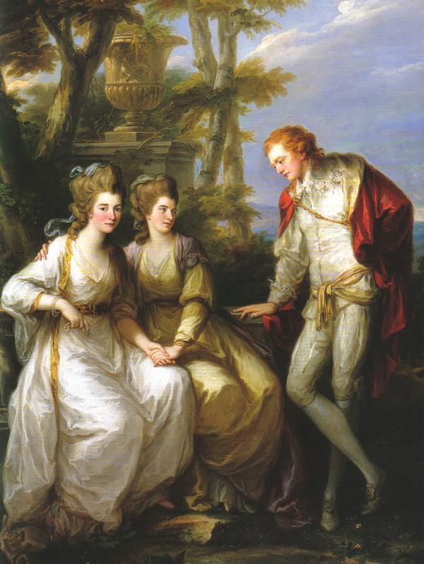 A portrait of the three children of the first Earl Spencer: Lady Georgiana Spencer (later Duchess of Devonshire) (7 June 1757 – 30 March 1806); Lady Henrietta Spencer (later Countess of Bessborough) (16 June 1761 – 11 November 1821); and Viscount Althorp (later 2nd Earl Spencer) (1 September 1758 – 10 November 1834).